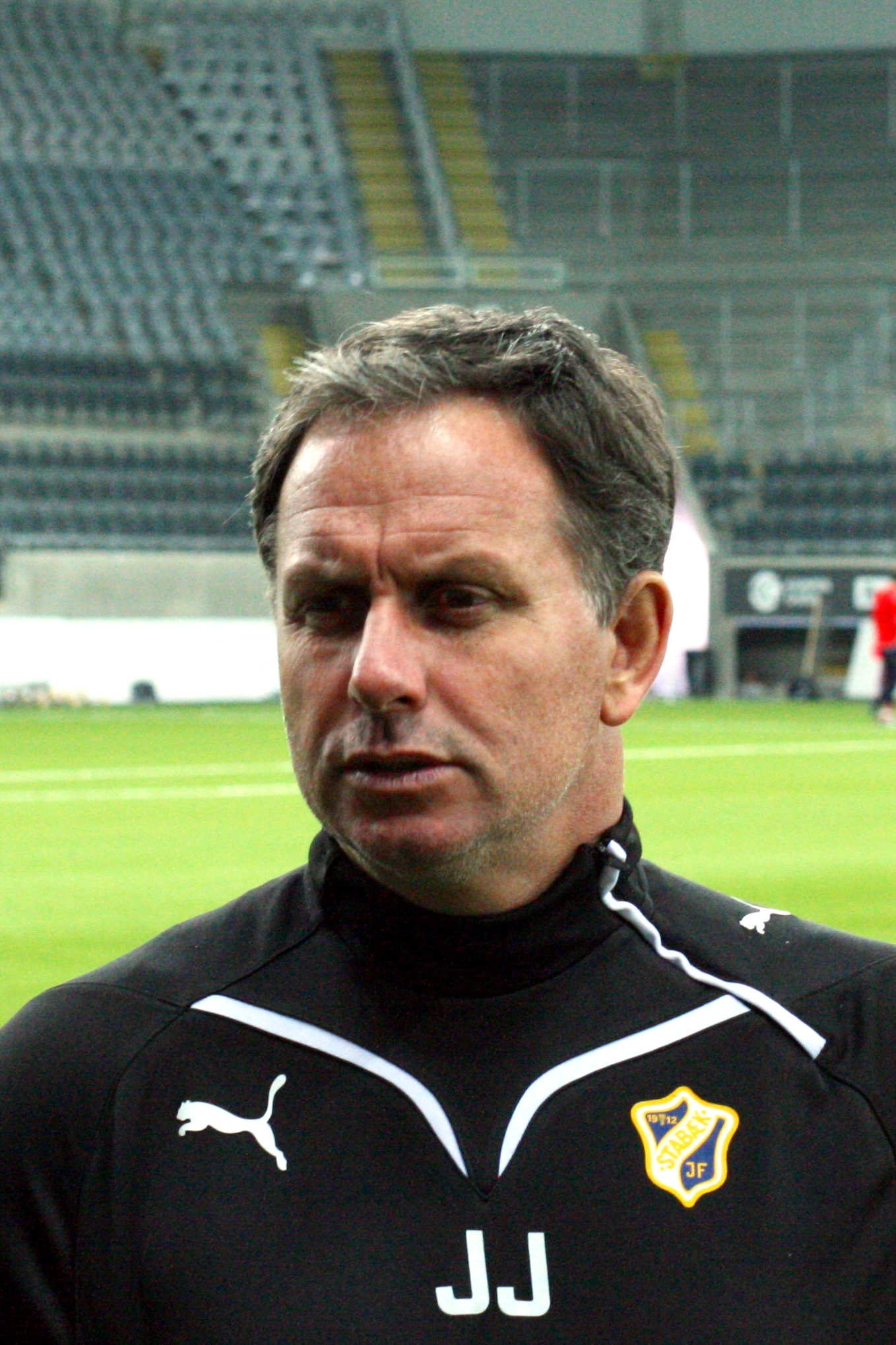 Swedish football manager Jan Jönsson.